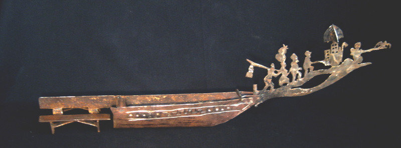 SUD Salon Urbain de Douala 2010. Triennial festival promoted by doual'art.